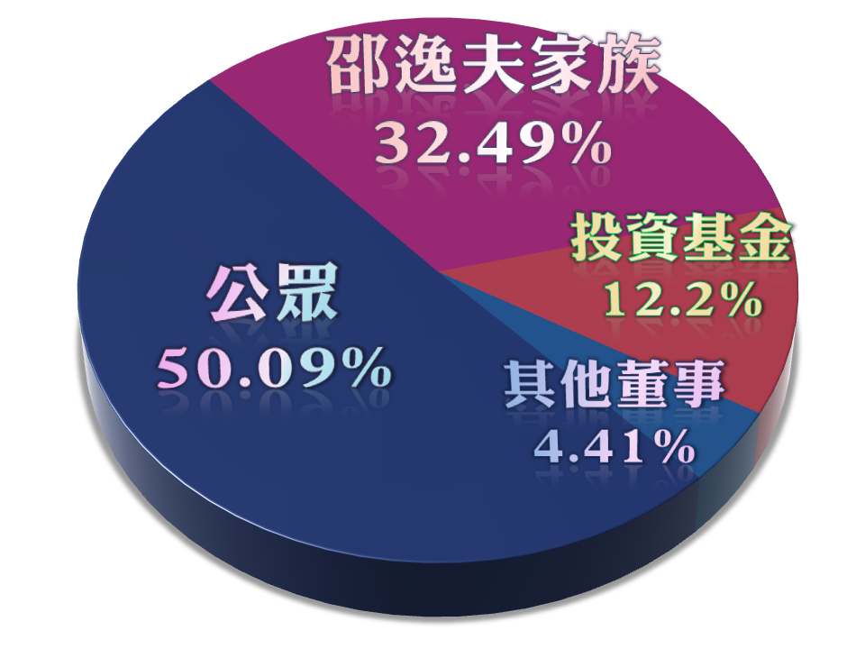 The chart showing the ownership of TVB